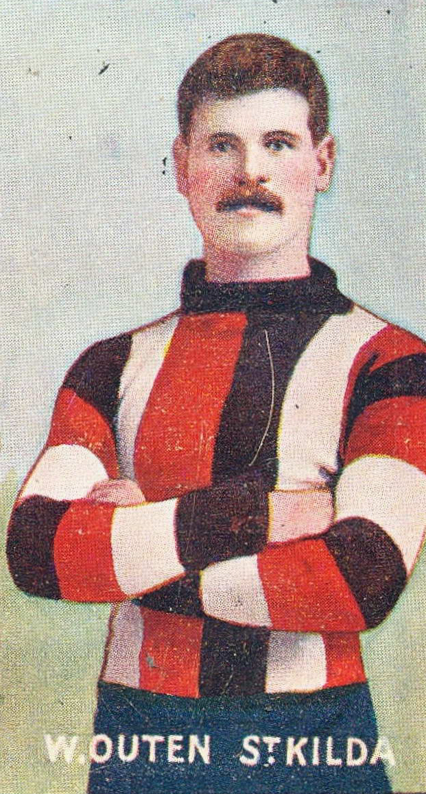 Cigarette card of Wyn Outen from the Sniders & Abrahams 1907 series